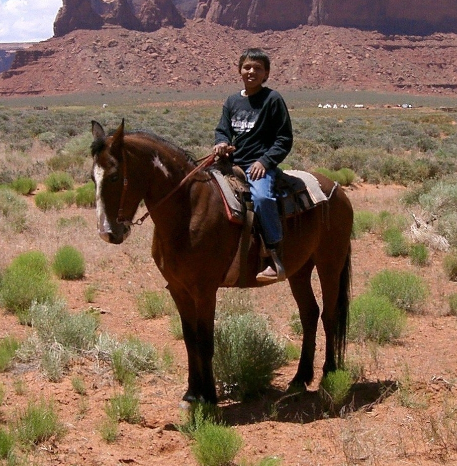 Navajo young boy on horse - working as guide for tourists - Monument Valley - Arizona